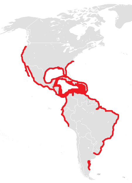 fixed Royal Tern map**